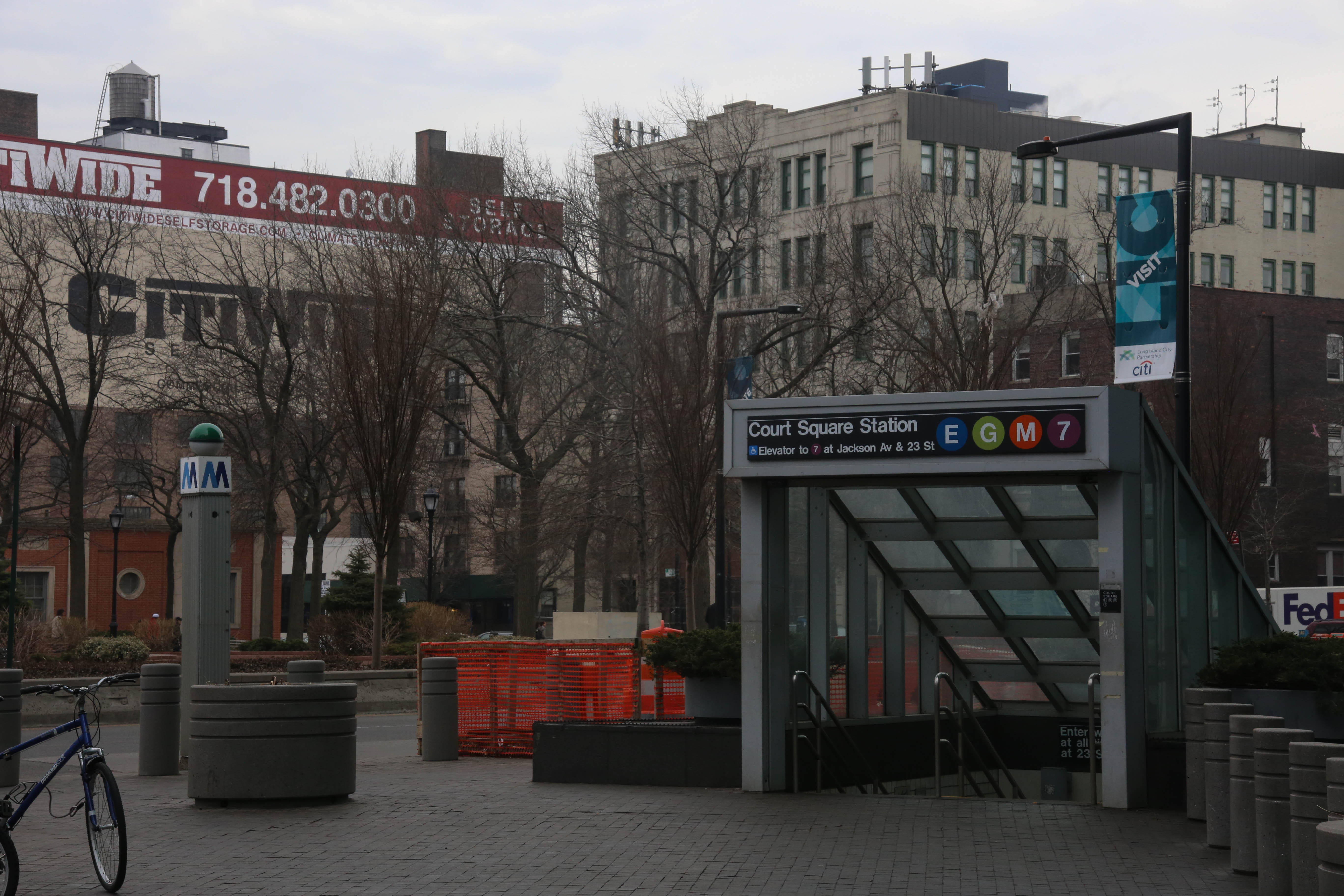 Court Square Station